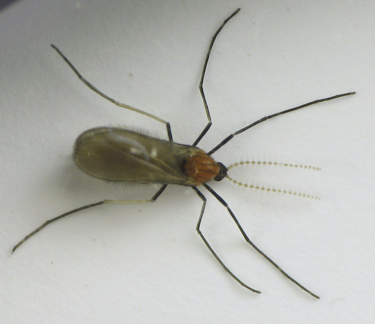 Rhopalomyia solidaginis, adult male newly emerged. Rancocas Nature Center NJAS, Burlington County, New Jersey, USA.